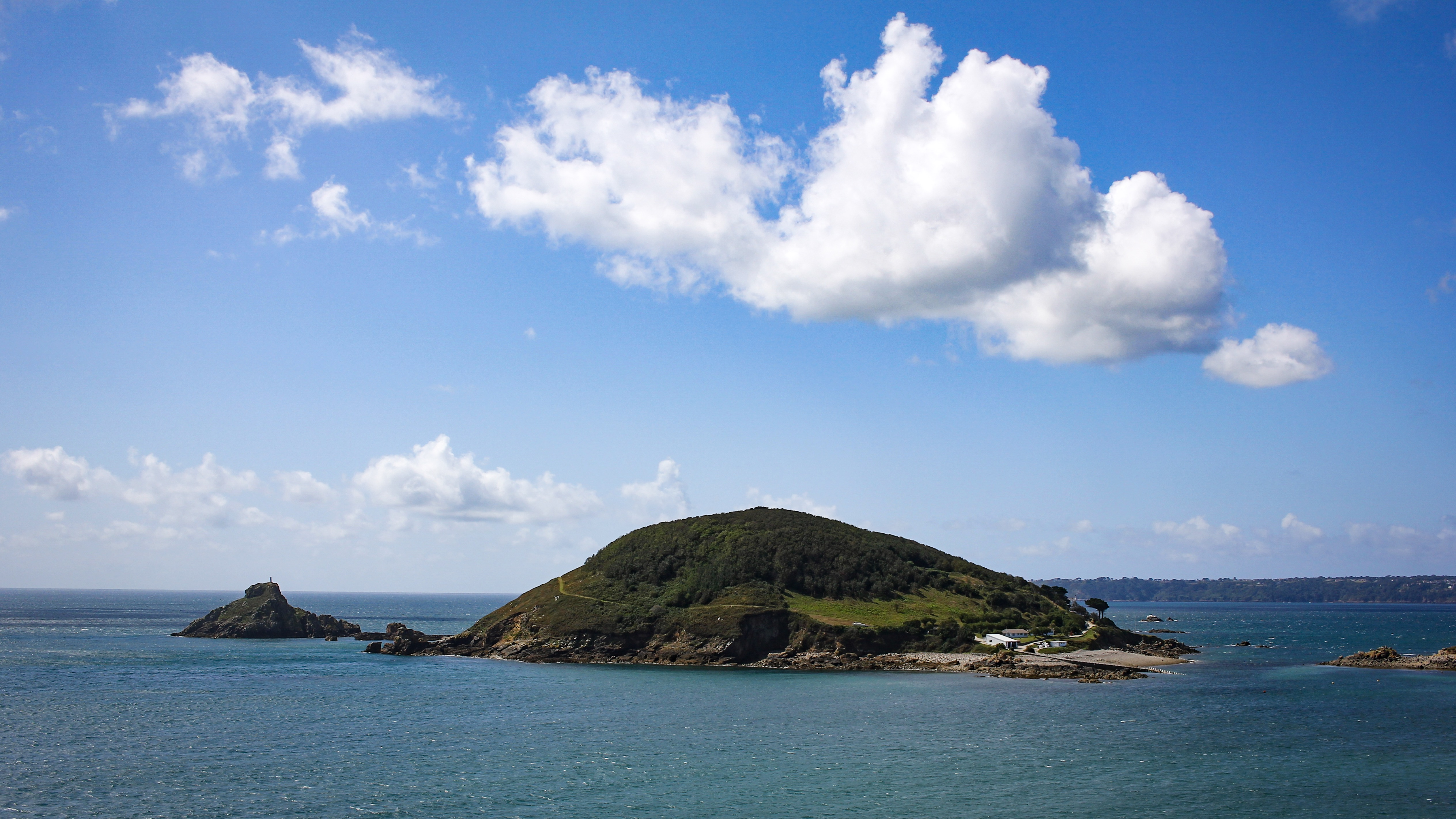 Jethou, private island in Channel Islands between Guernsey and Herm